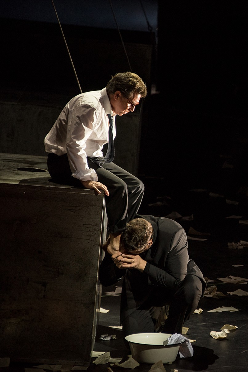 Opera "La Juive" by Eugène Scribe and Jacques Fromental Halévy, new production at Bayerische Staatsoper (Bavarian State Opera) in Munich, June 2016, directed by Calixto Bieito, sets by Rebecca Ringst, costumes by Ingo Krügler, video design by Sarah Derendinger, light design by Michael Bauer, conducted by Bertrand de Billy - this scene with Roberto Alagna (Eléazar) and Ain Anger (Cardinal Brogni)